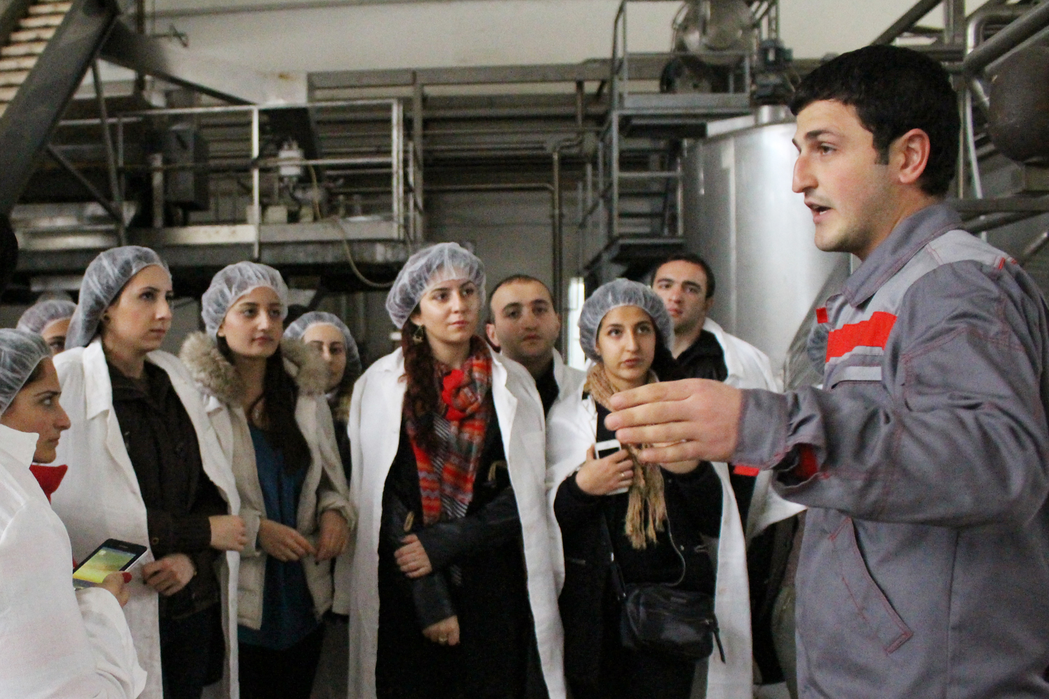 ATC students' trip to Noyan juice factory.